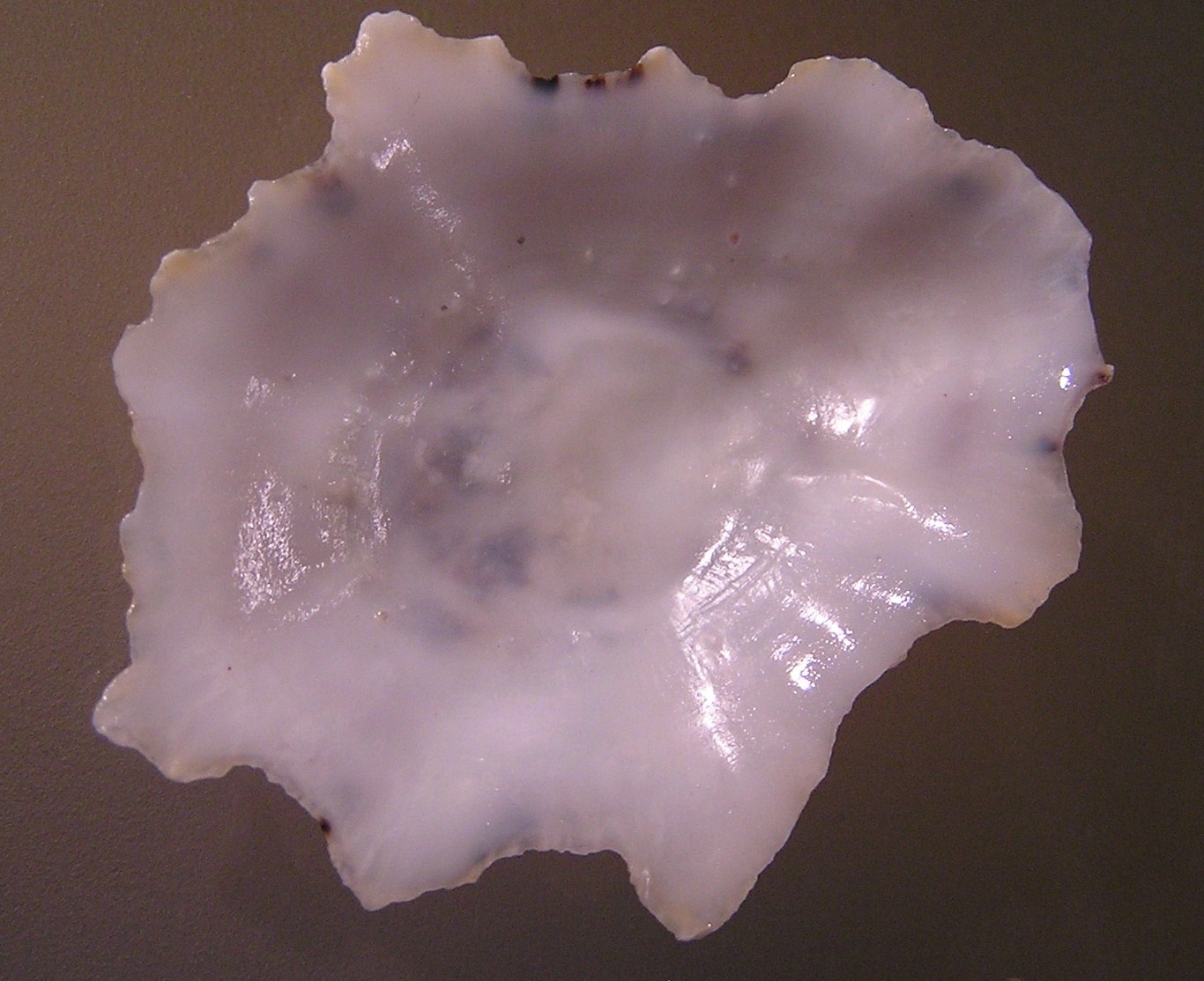 Patelloida saccharinoides T. Habe & S. Kosuge, 1966; a true limpet from the family Lottiidae;Philippines